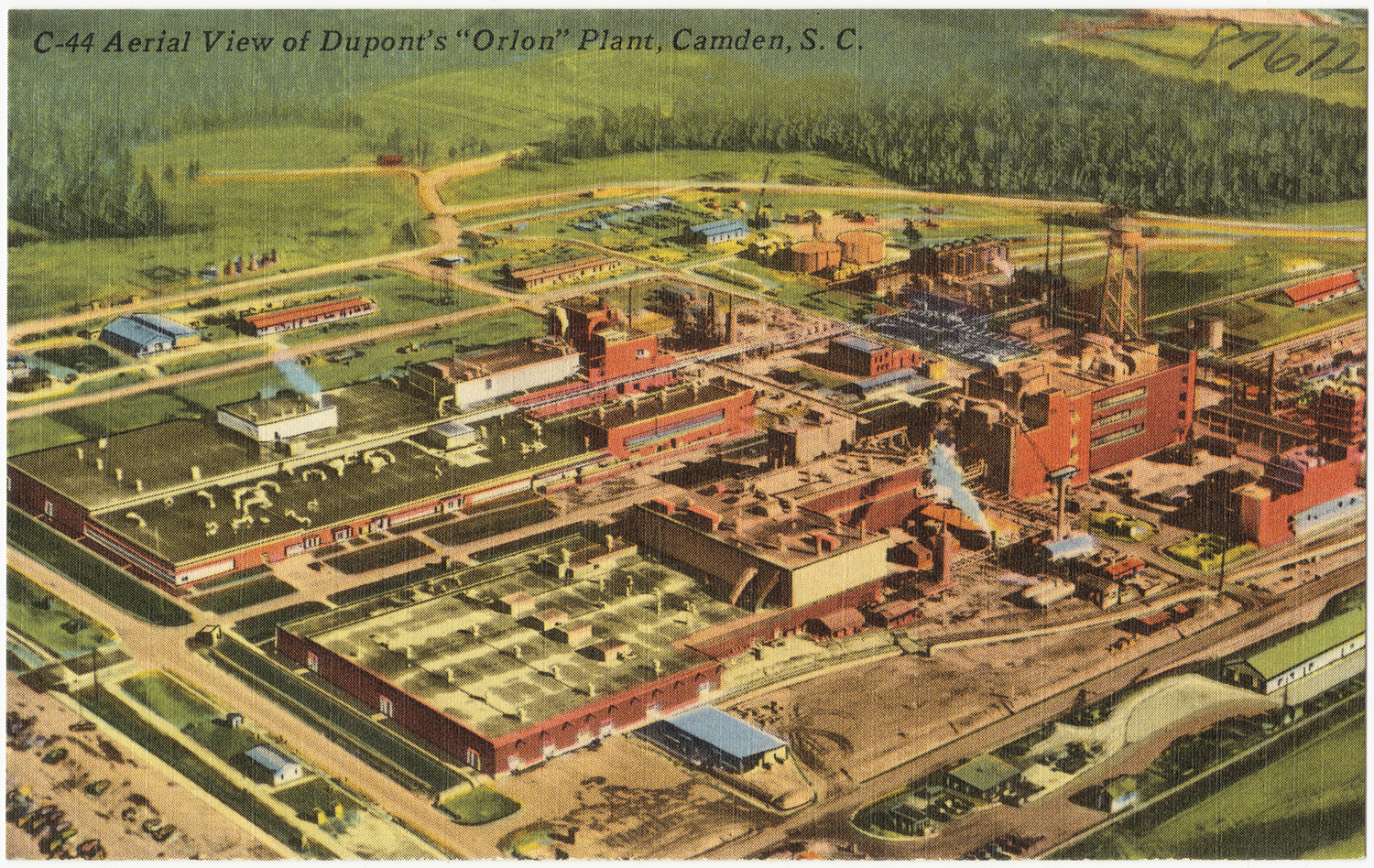 File name: 06_10_018661 Title: Aerial view of Dupont's "Orlon" Plant, Camden, S. C. Created/Published: Pub. by The Asheville Post Card Co., Asheville, N. C. Date issued: 1930 - 1945 (approximate) Physical description: 1 print (postcard) : linen texture, color ; 3 1/2 x 5 1/2 in. Genre: Postcards Subjects: Industrial facilities Notes: Collection: The Tichnor Brothers Collection Location: Boston Public Library, Print Department Rights: No known restrictions